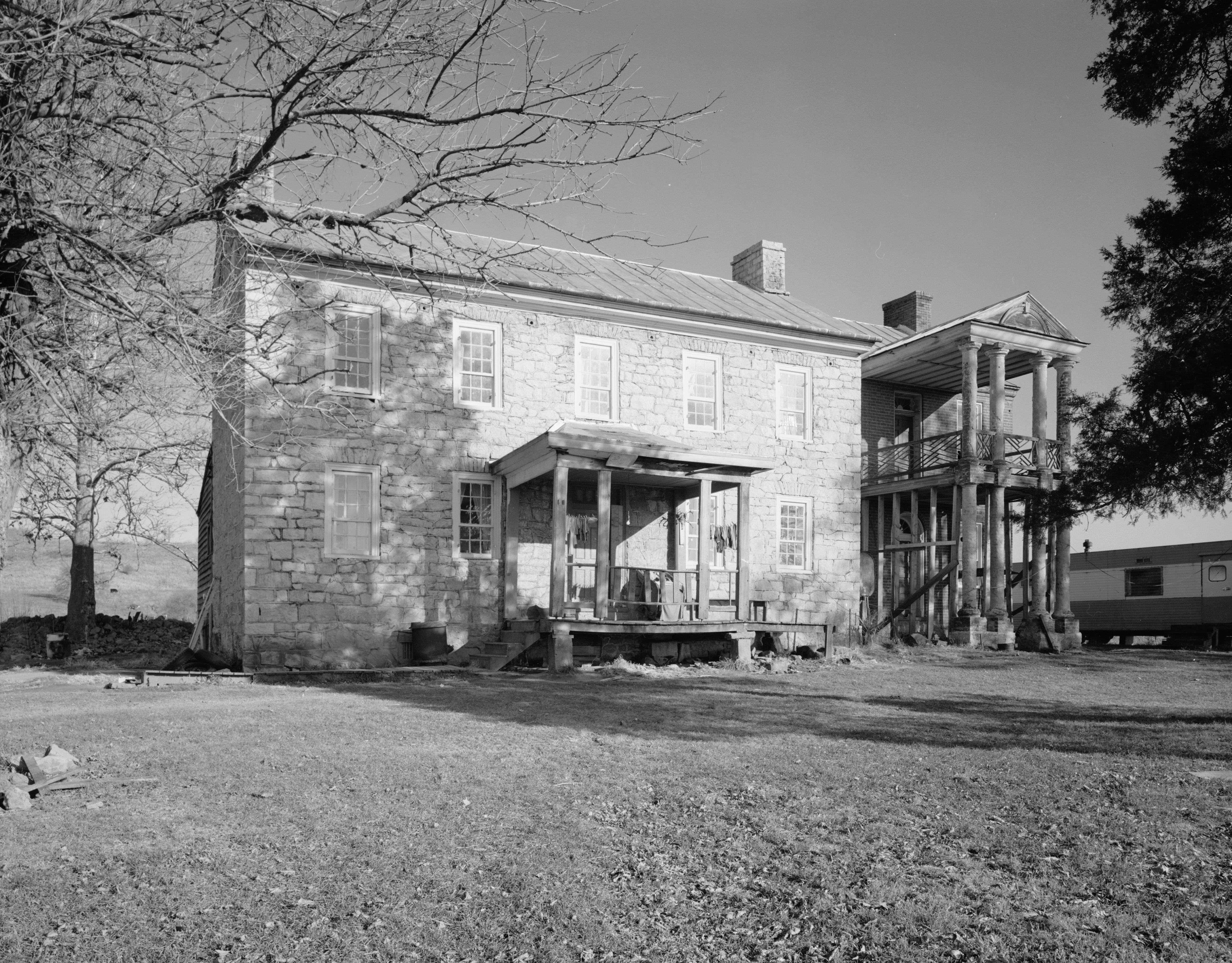 Front of the Renick Farmhouse, located along U.S. Route 219 near Renick in Greenbrier County, West Virginia, United States. Built in 1792, it and the rest of the farm complex are listed on the National Register of Historic Places.